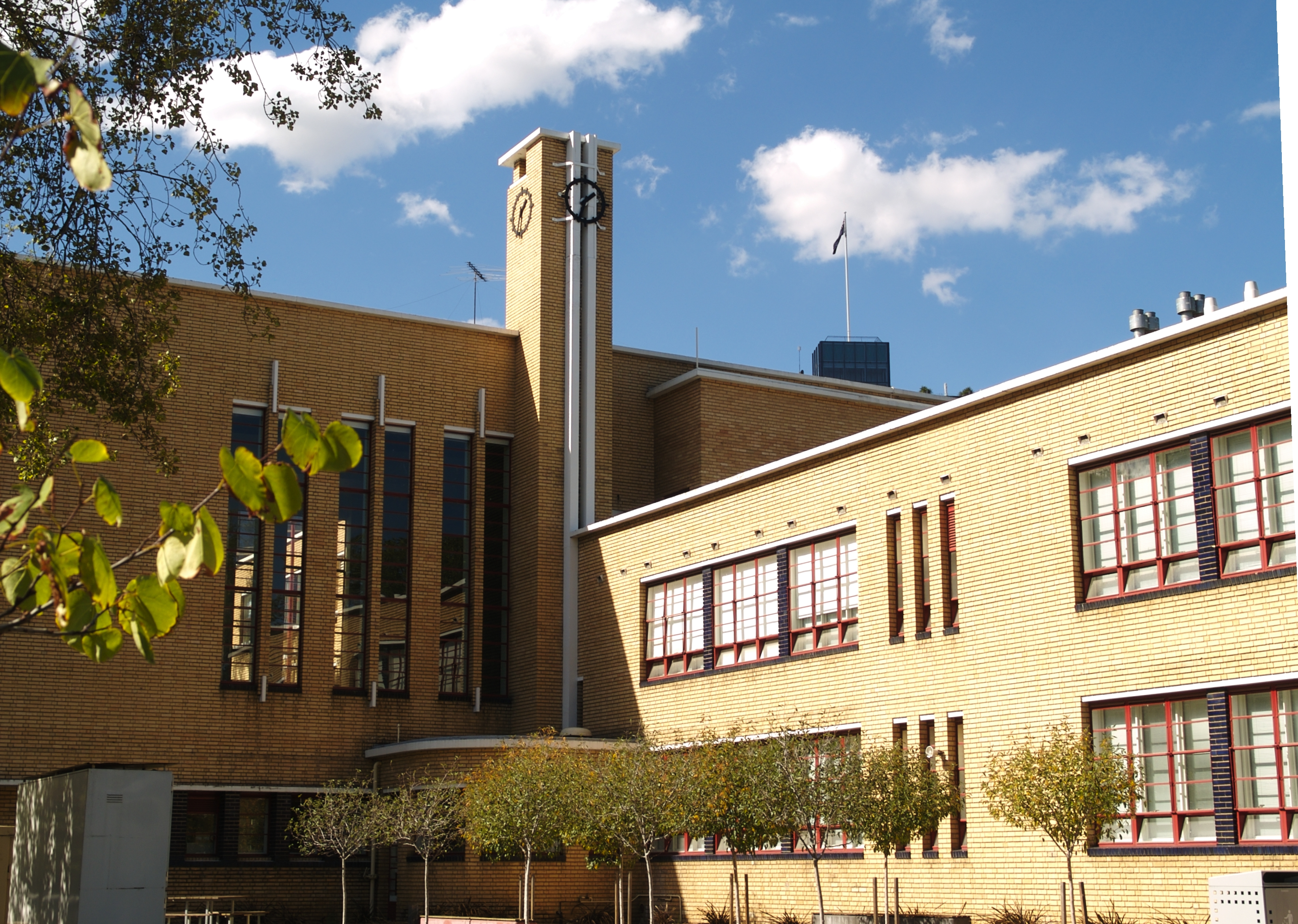 MacRobertson Girl's High School